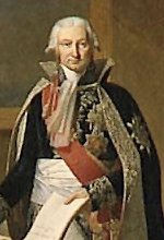 Jean-Baptiste de Nompère de Champagny, 1º duque de Cadore (1756-1834) french admiral and politician